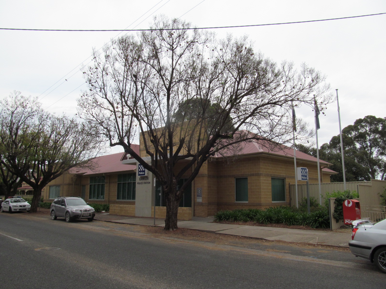 Gawler police station in Gawler, South Australia.